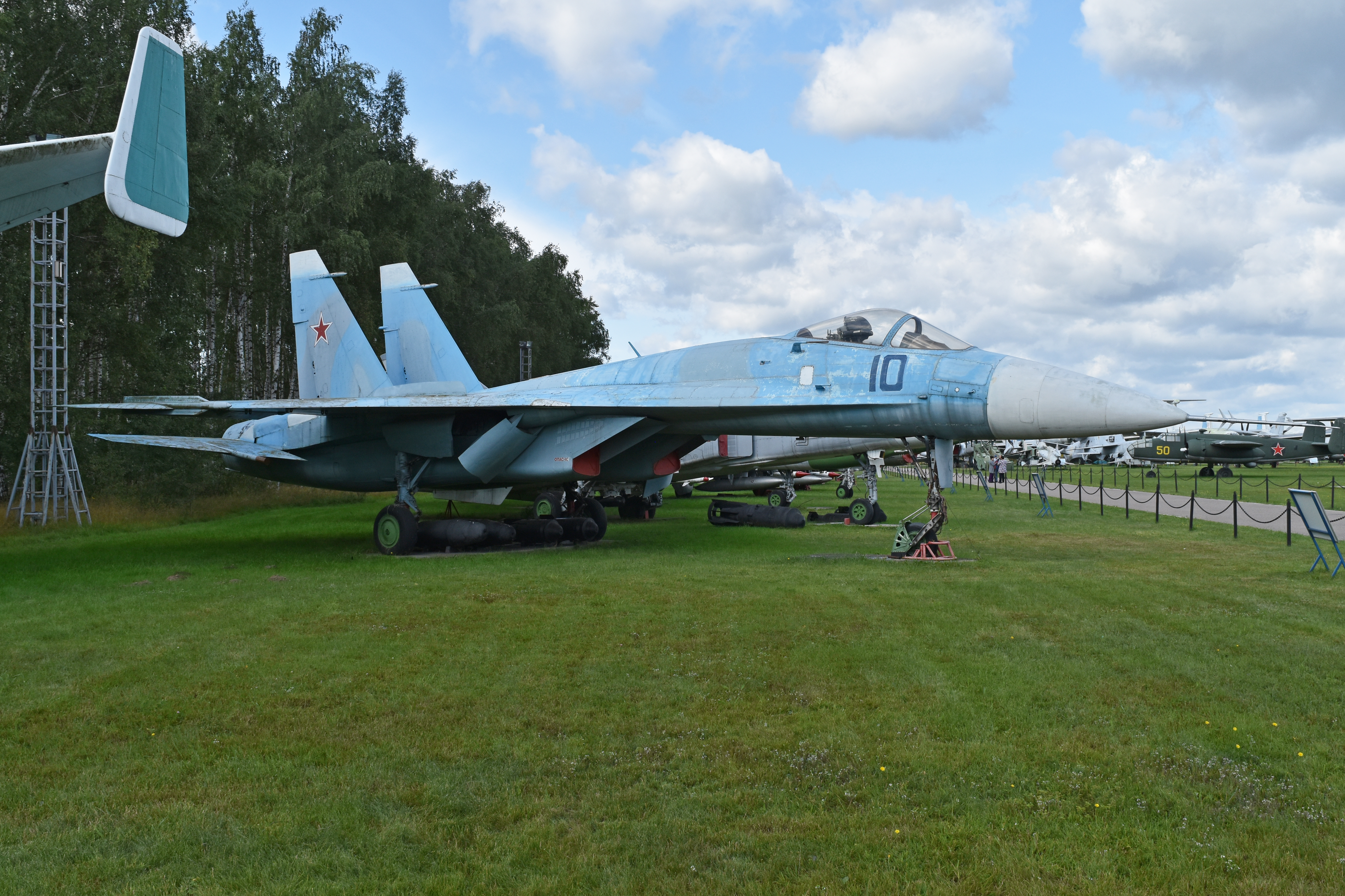 c/n T.10-1 NATO codename:- Flanker-A The T-10 was the original prototype for what became the Su-27. While the layout is the same it is otherwise a completely different airframe. This is the first prototype which made its initial flight on 20th May 1977. On display at the Central Air Force museum, Monino, Moscow Oblast, Russia. 27th August 2017